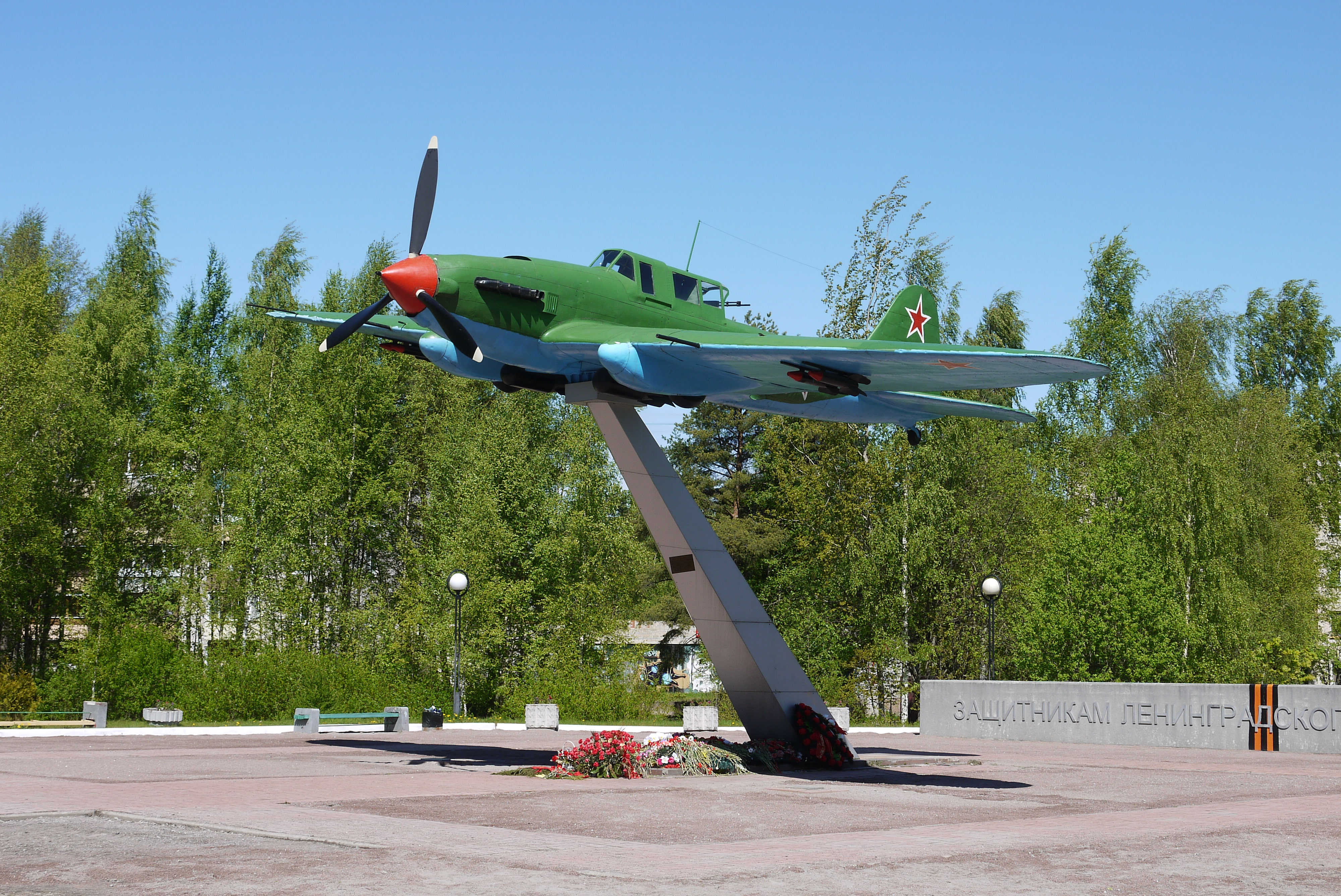 Ilyushin Il-2, Lebyazhye, Leningrad Oblast, Russian Federation